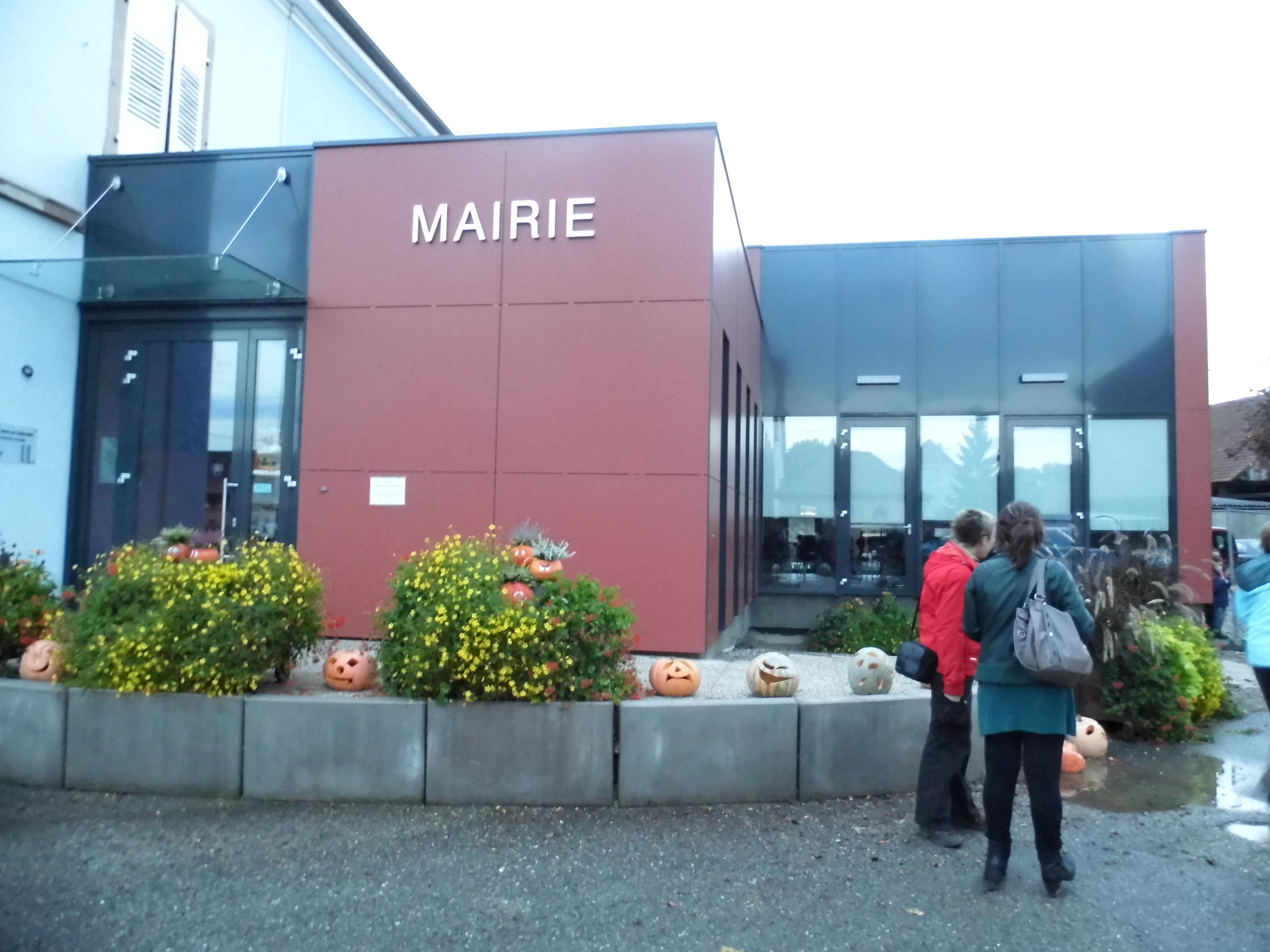 New town hall in Logelheim, Haut-Rhin, France